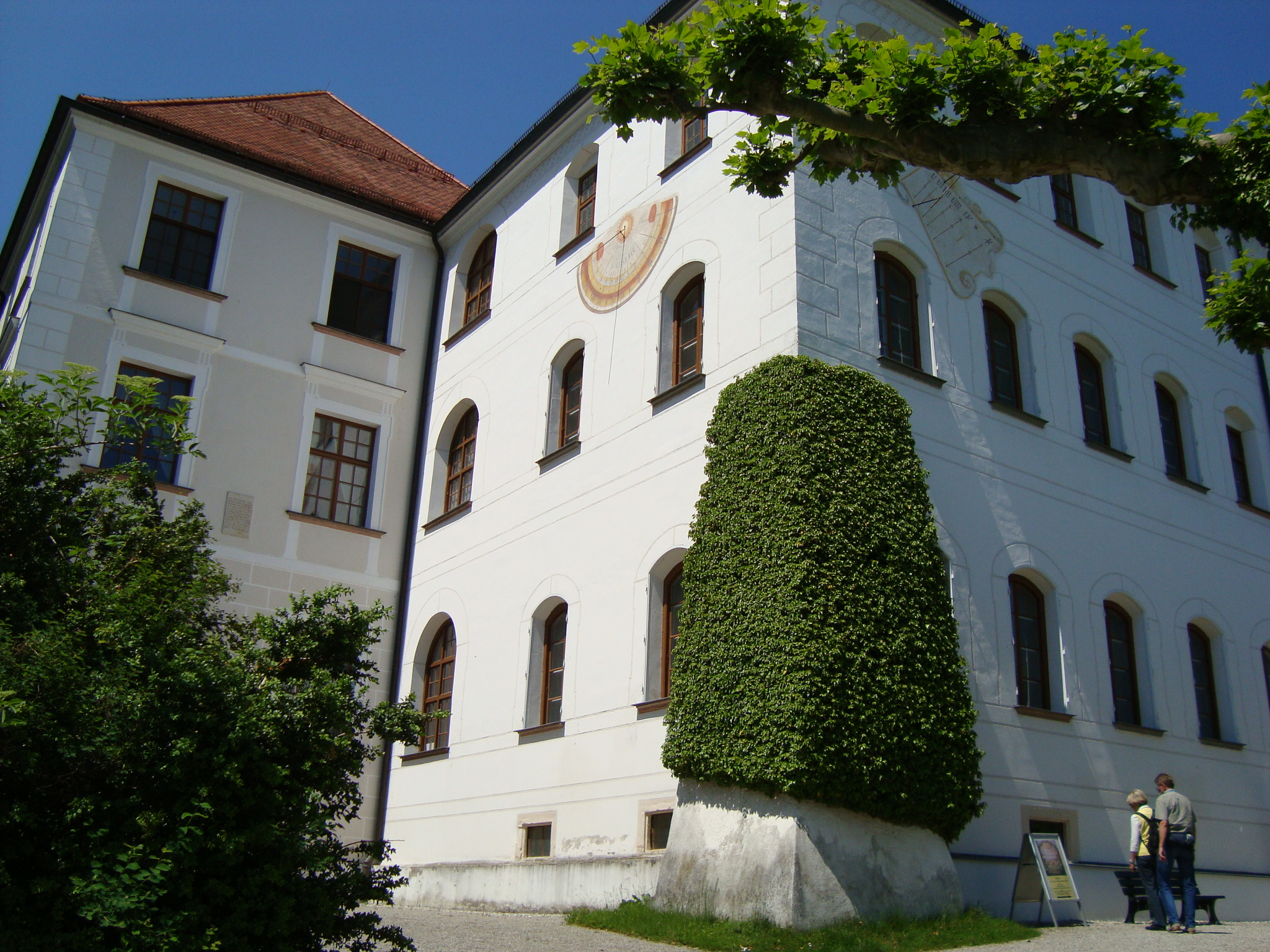 Augustinian Monastery Herrenchiemsee from South